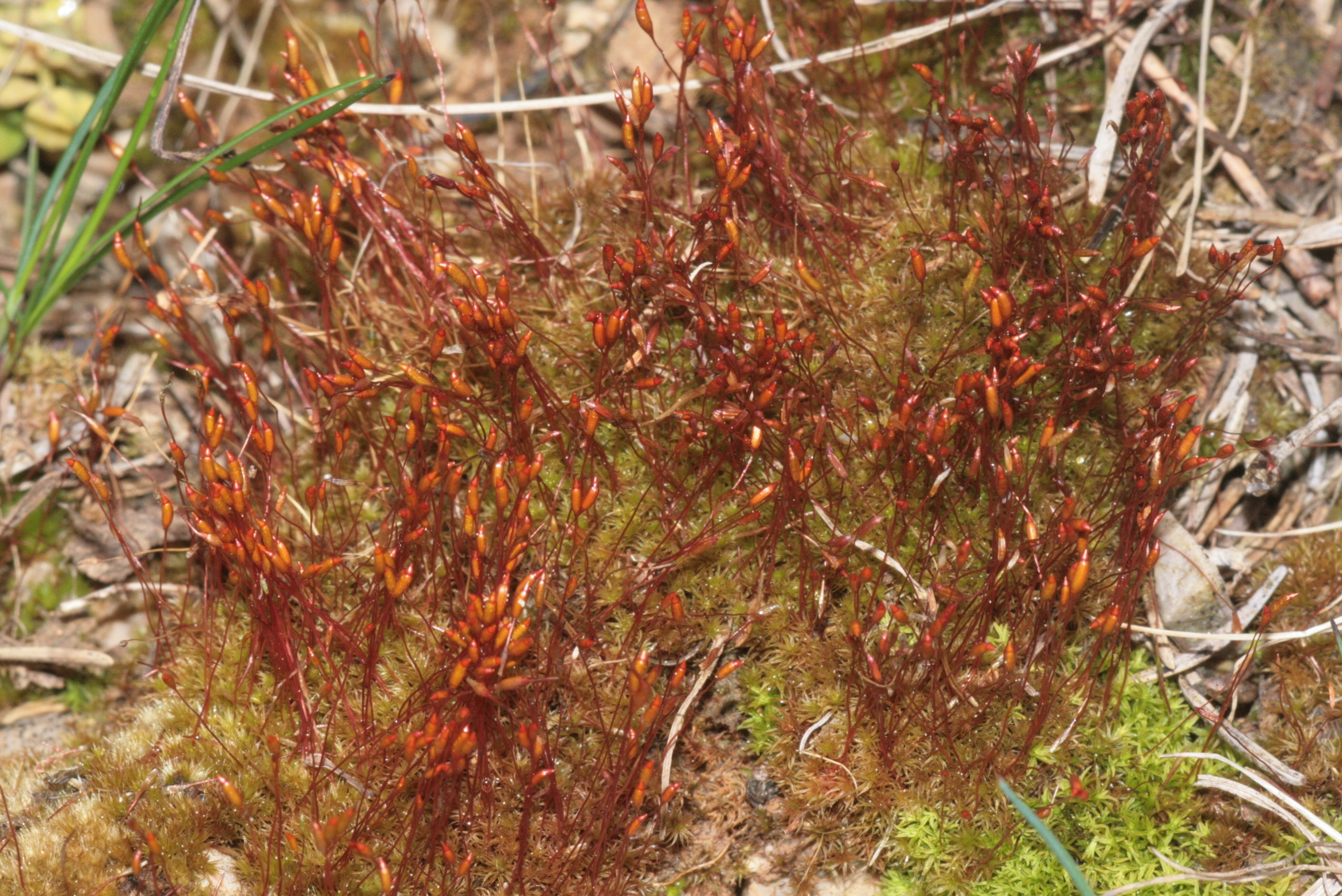 Ceratodon purpureus